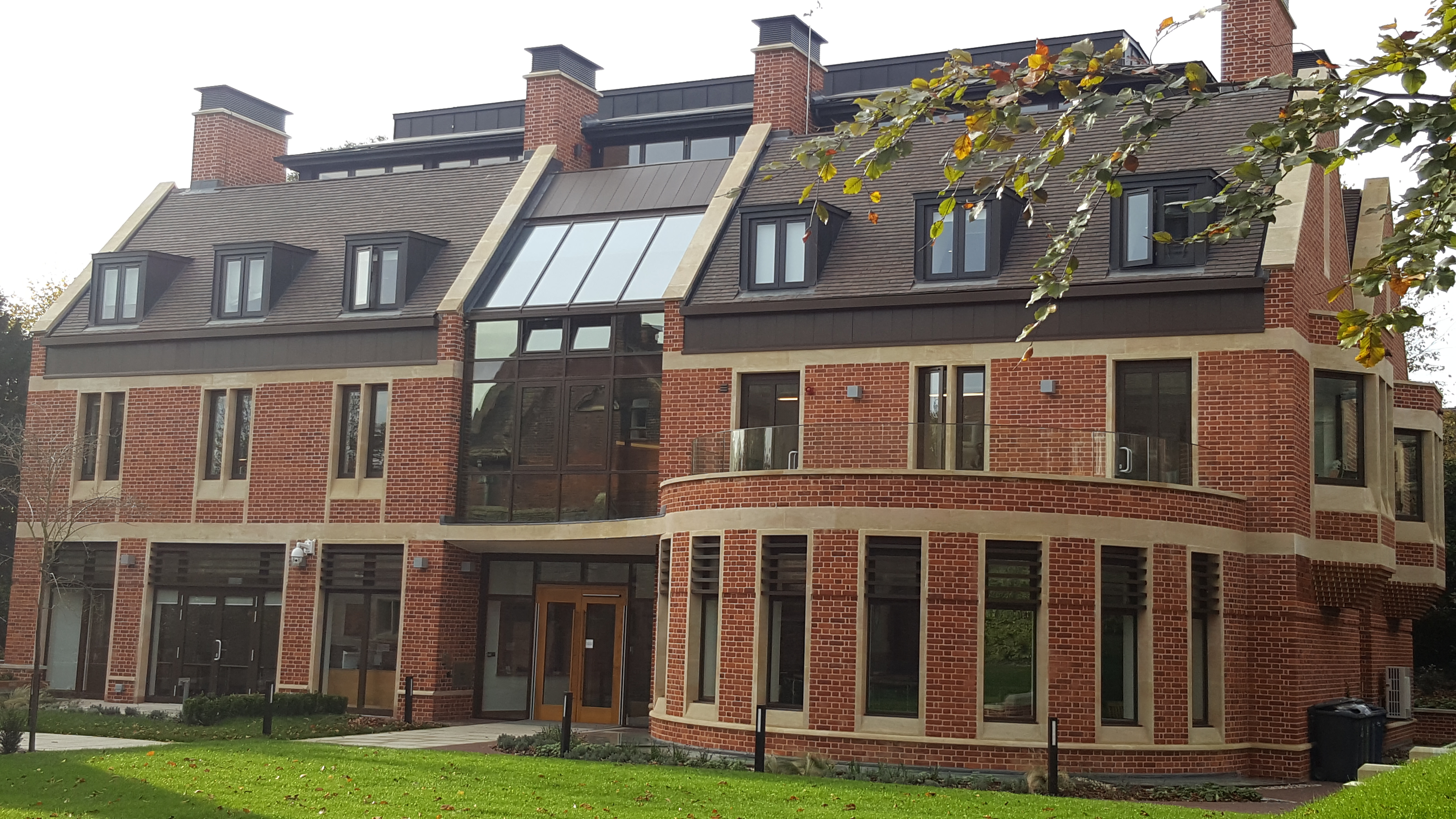 View of the Woolf Institute Building from the Westminster College site.